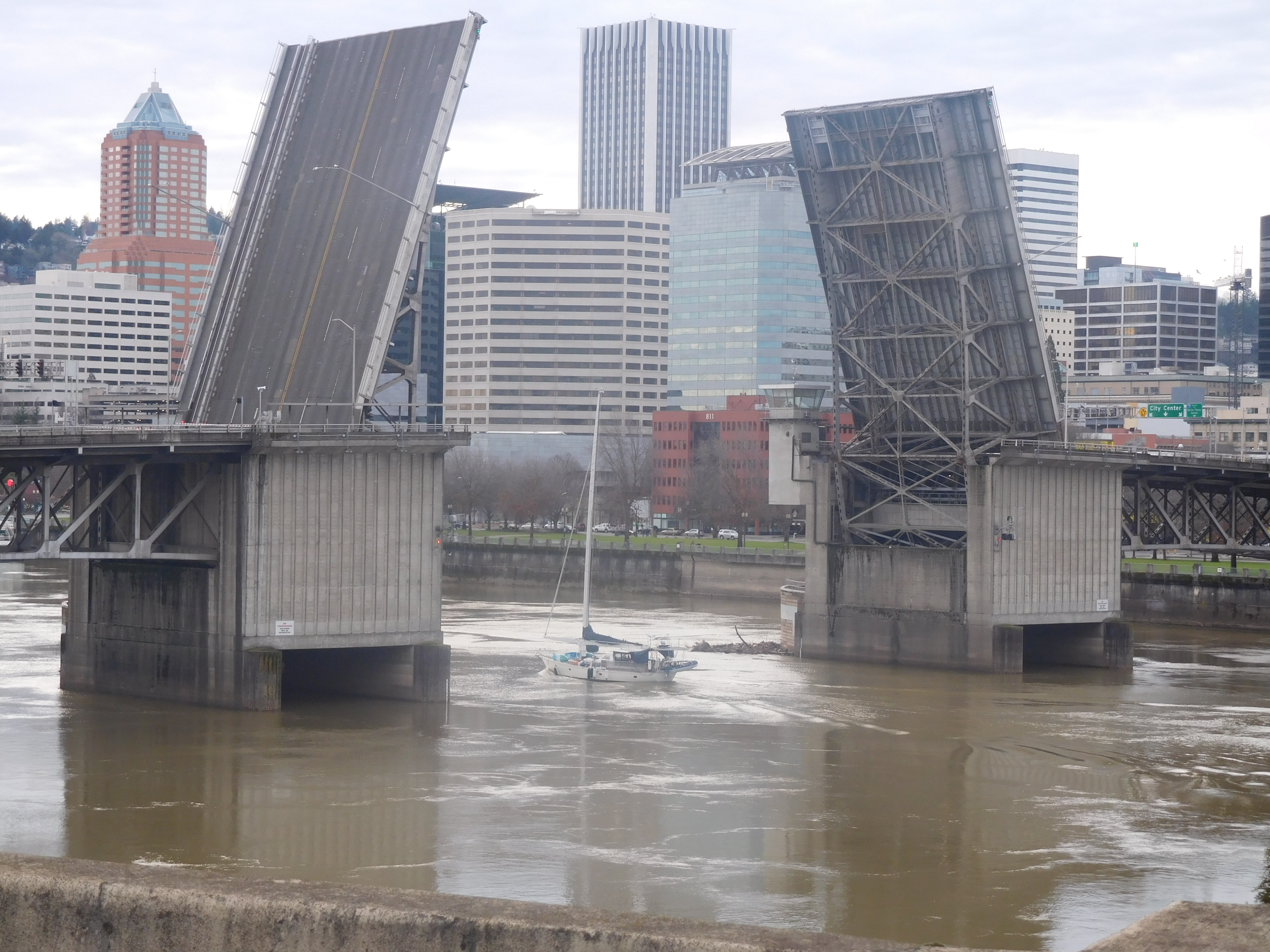 The Morrison Bridge, photographed from I-5 in East Portland, showing a boat sailing through the opened bridge.